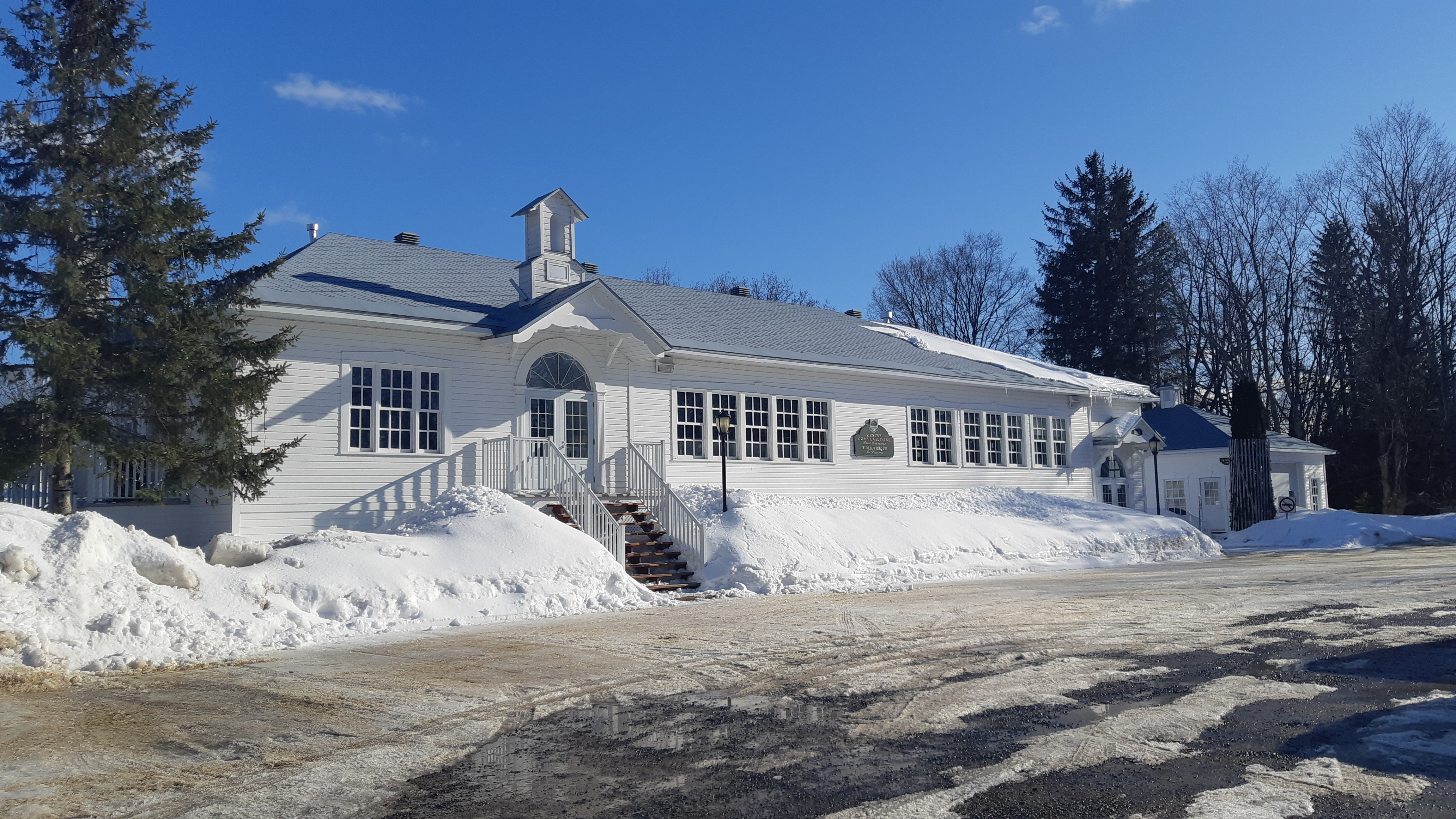 Raoul Dandurand Community Center and library in Sainte-Pétronille next to the town hall. Taken in 2020 with Samsung Galaxy A8.